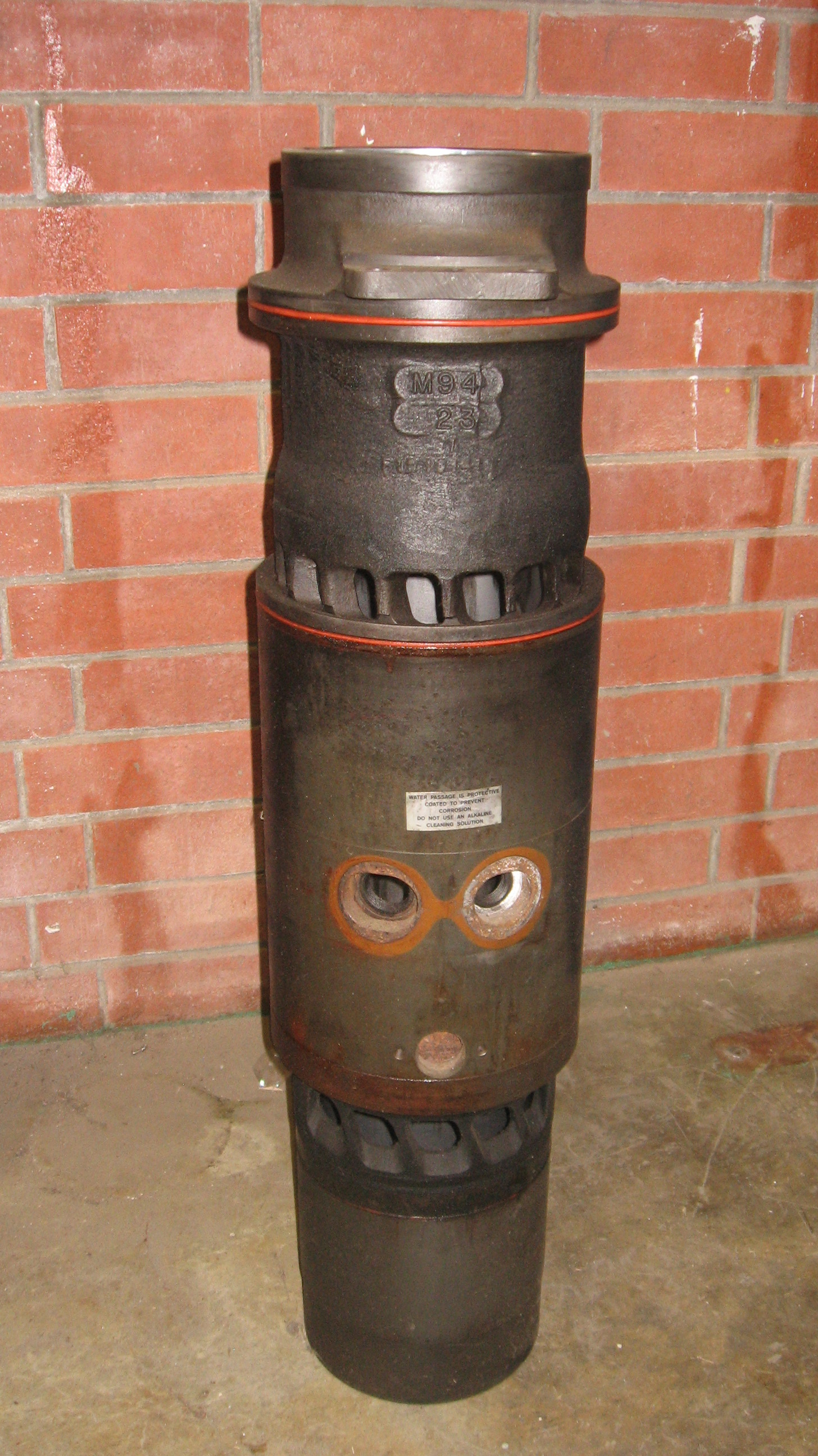 Fiarbanks Morse Opposed Piston cylinder liner.